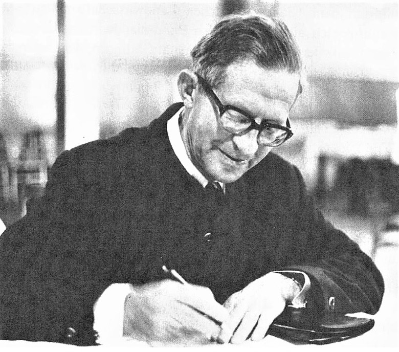 Dr. Hermann Junack, deutscher Forstmann und Publizist